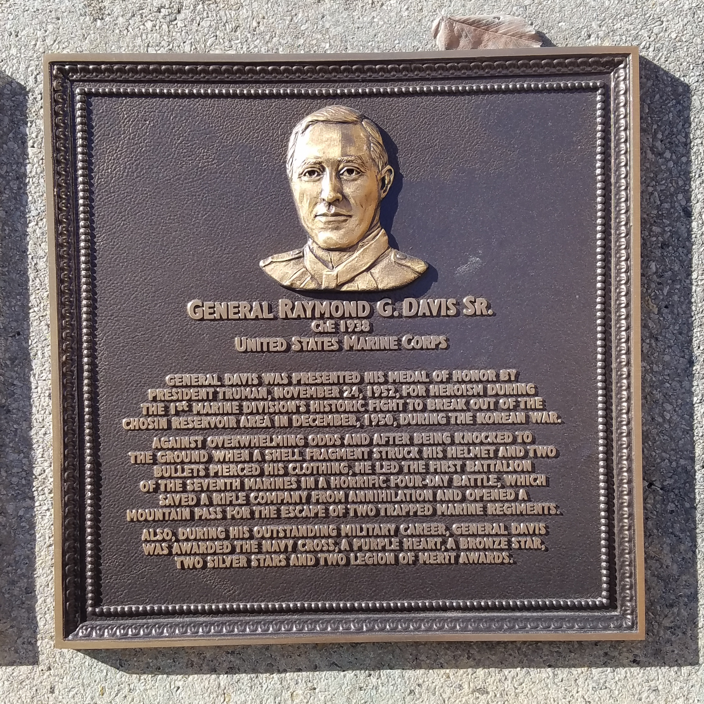 Plaque for Raymond G. Davis Sr. at the Wardlaw Center at Georgia Tech.